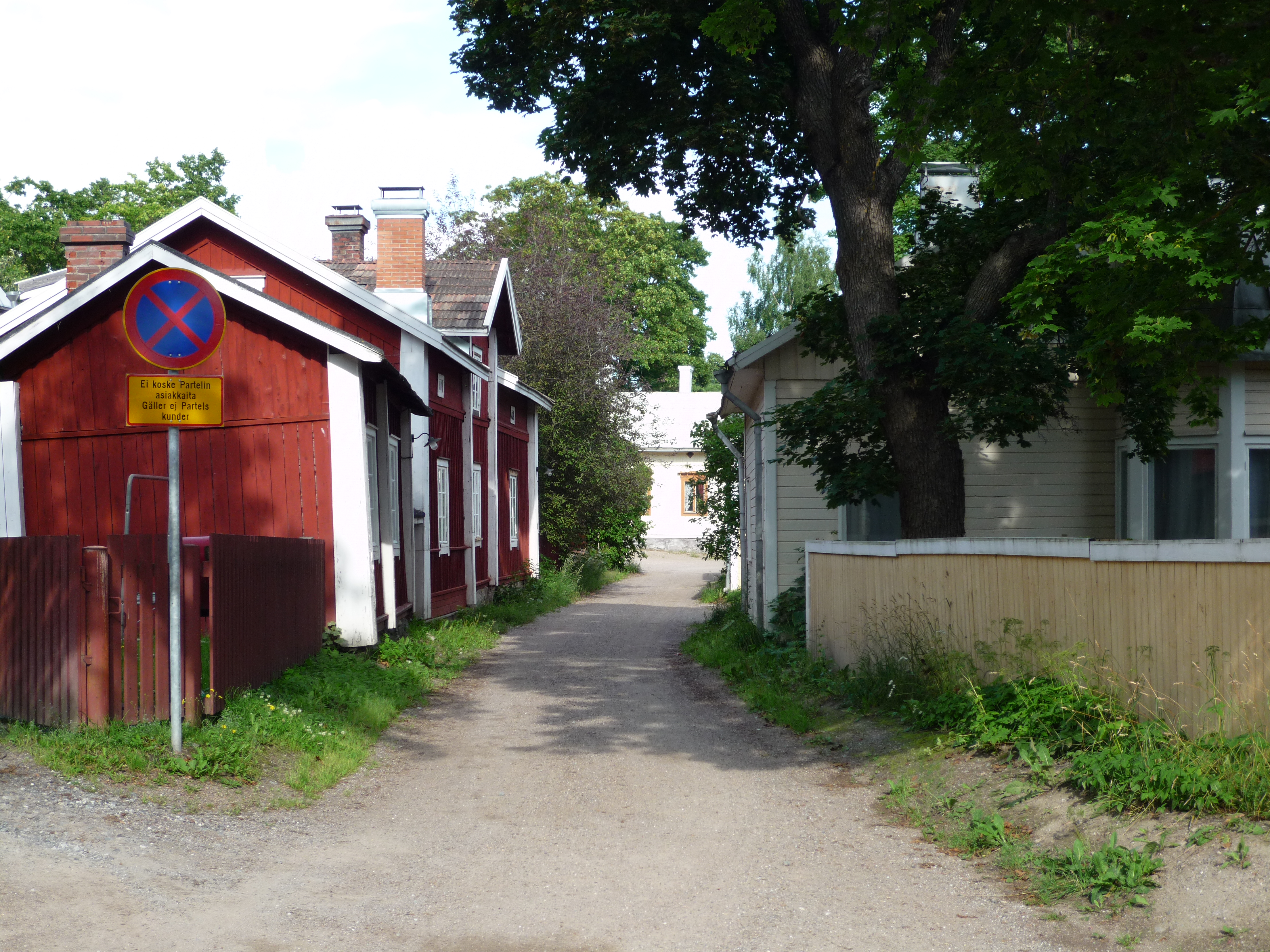 "Old town" in Pargas